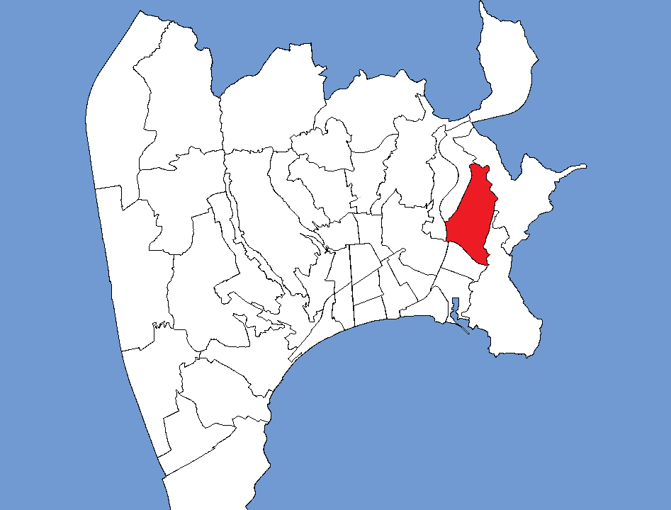 Location of the neighbourhood Saint Roch in Nice